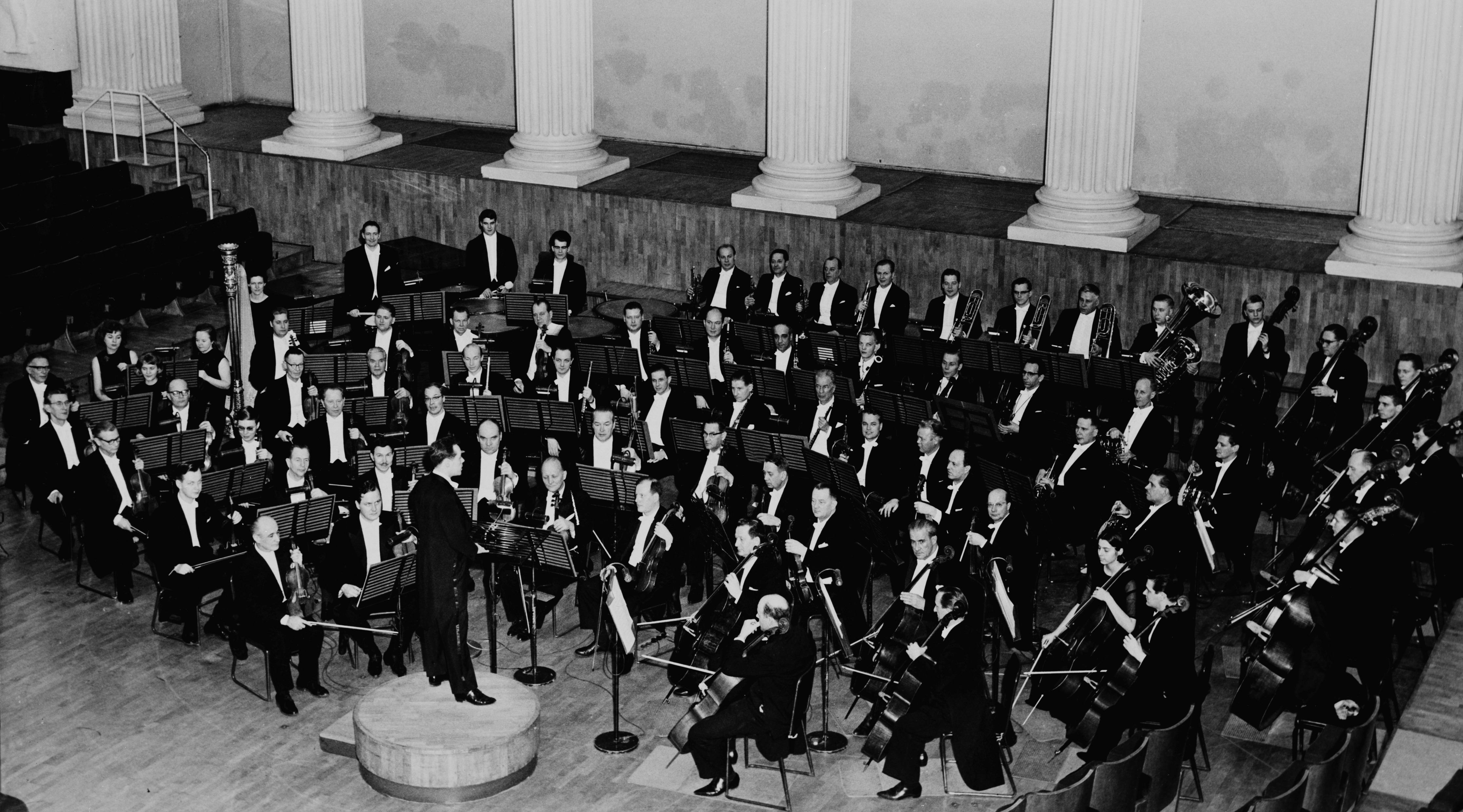 Photograph of the Helsinki Philharmonic Orchestra with the conductor Jorma Panula in the main hall of Helsinki University.